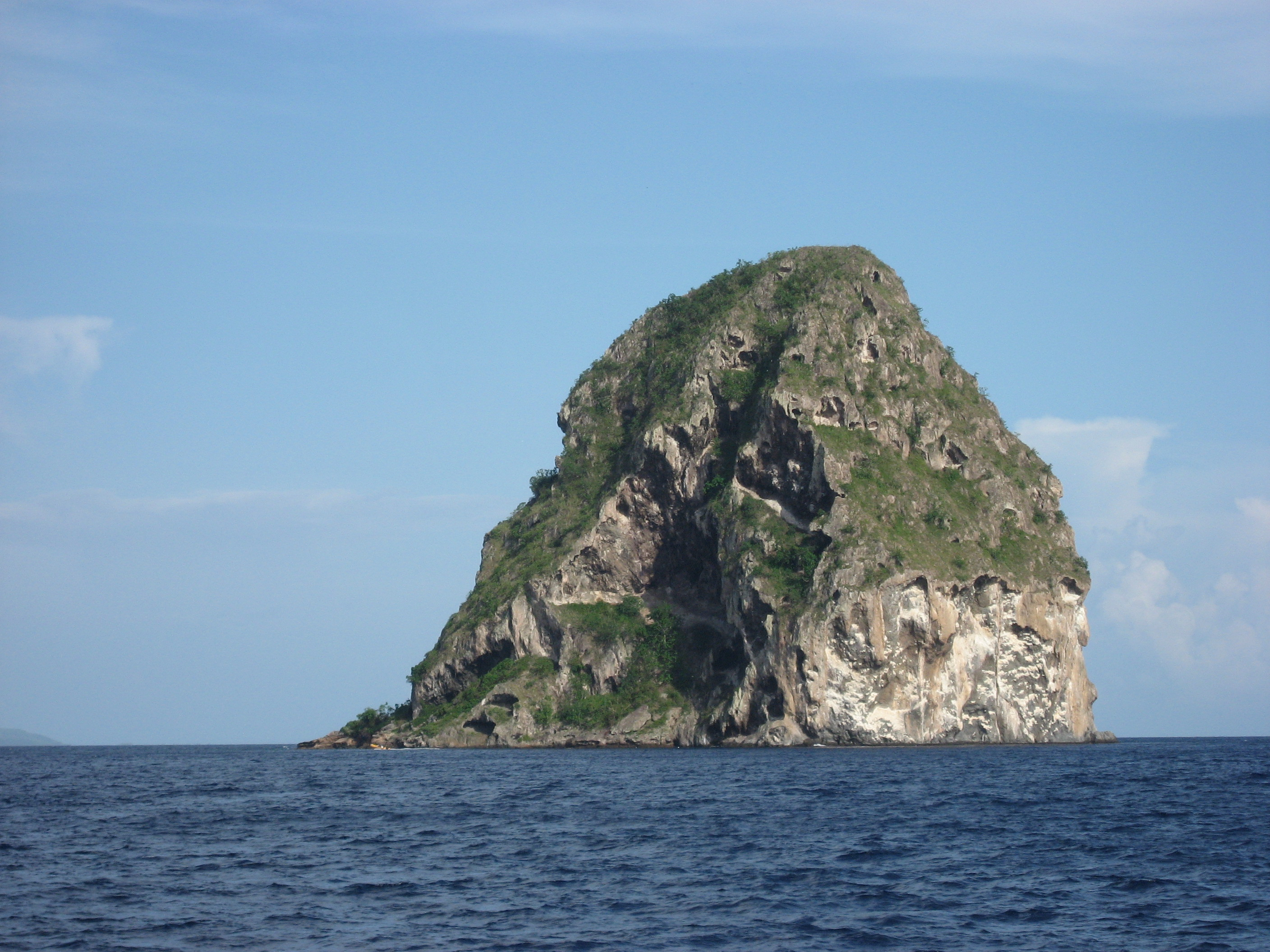 Diamond Rock off the coast of Martinique